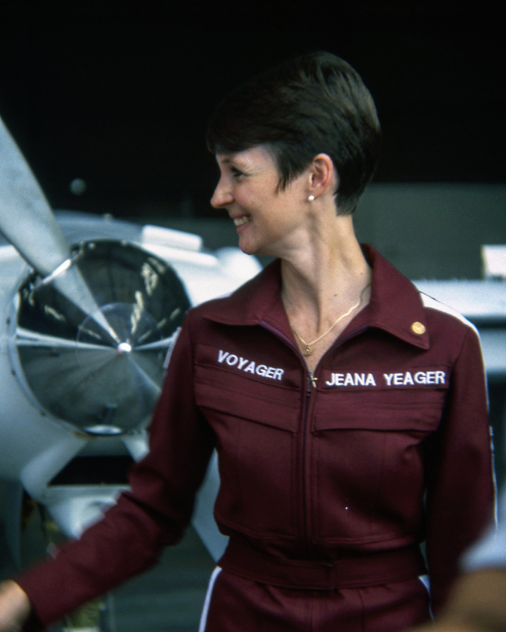 A photo documenting the 1986 Rutan Voyager flight